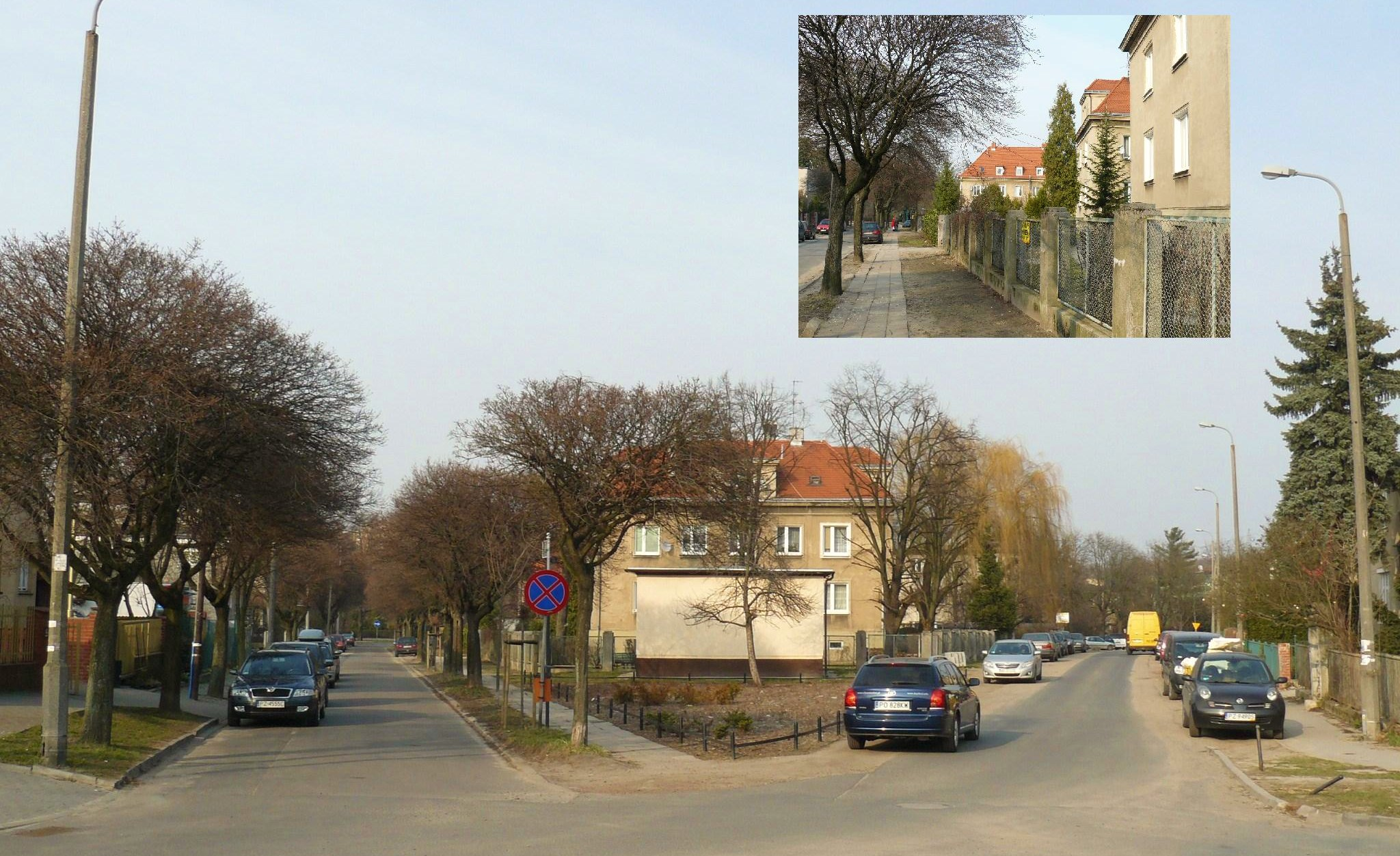 Klin Street, Poznan.